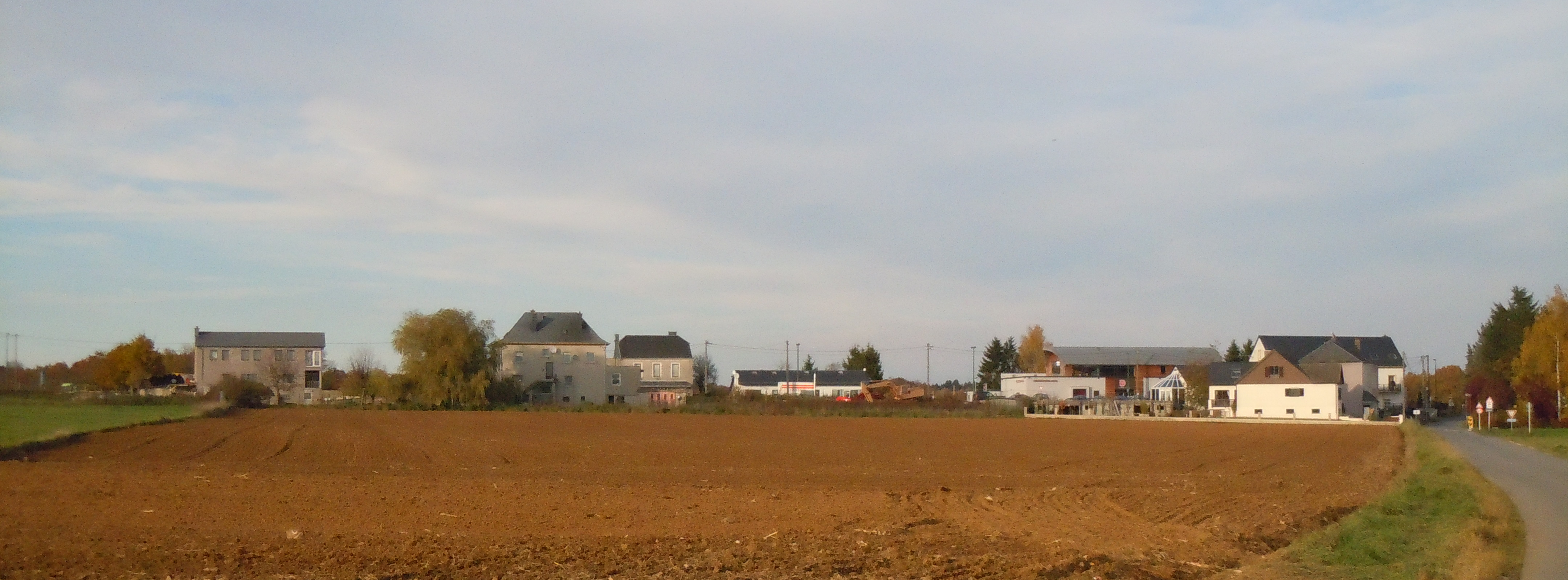 Southern view of Rosenberg, Belgium.